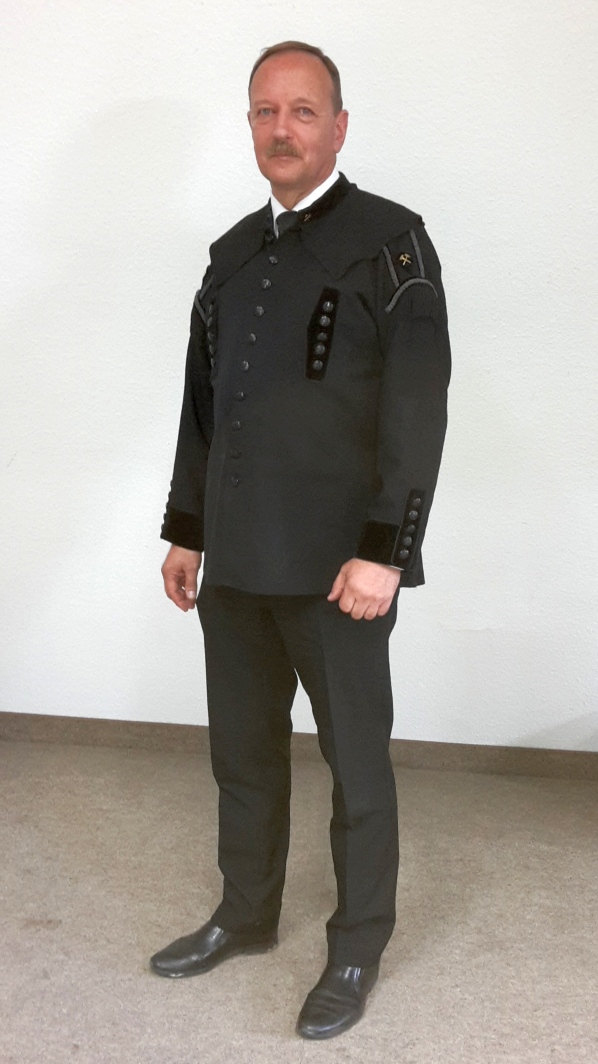 Prof. Carsten Drebenstedt.